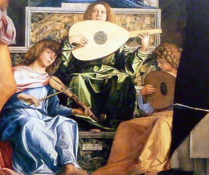 Giovanni Bellini: Pala di San Giobbe, 1480-85 Gallerie dell'accademia, Venice